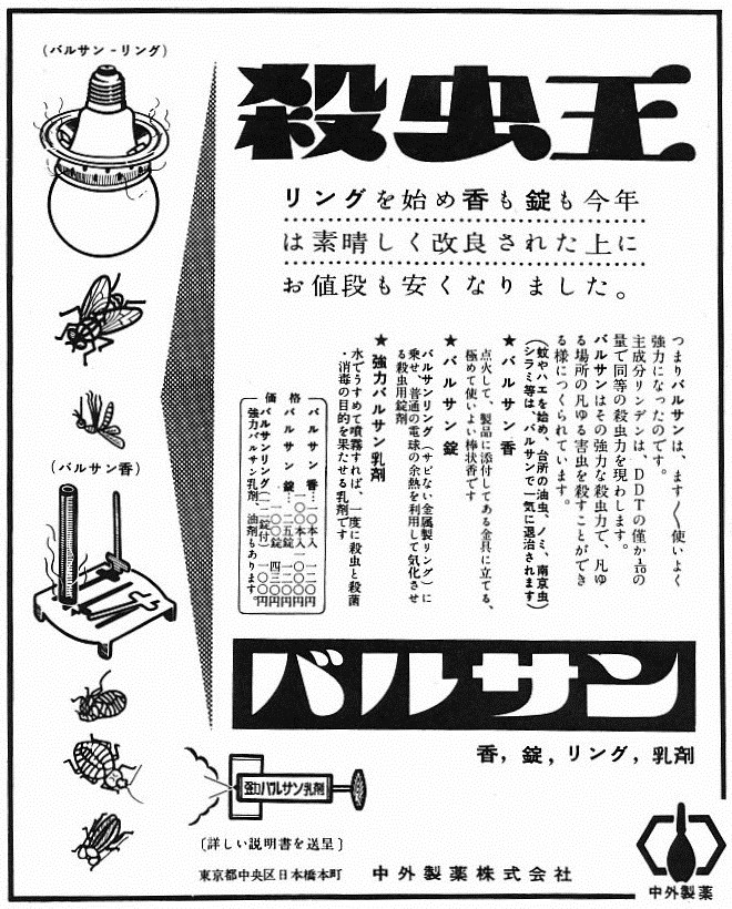 Advertisement of Varsan in 1950s